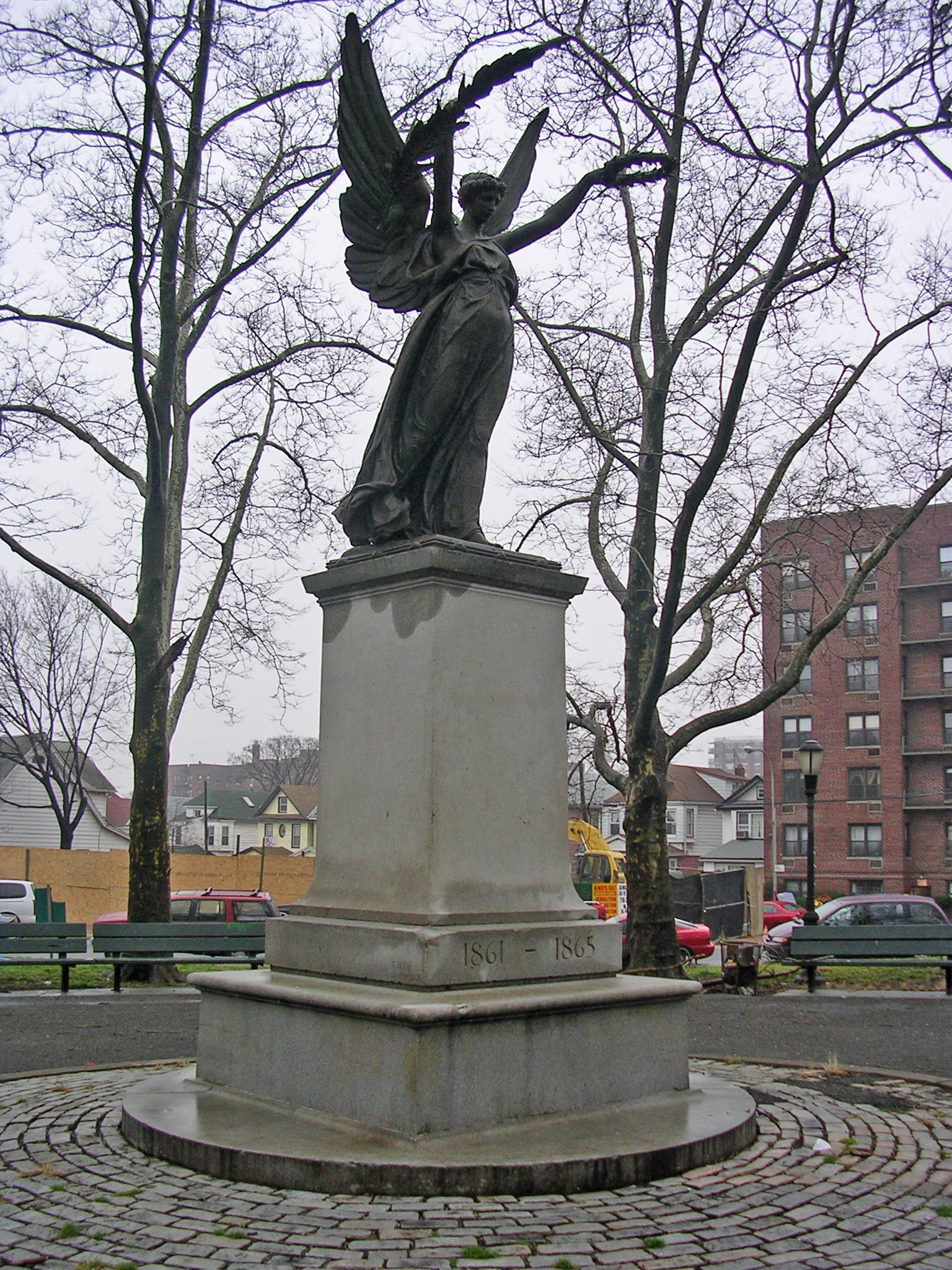 Frederick Ruckstull's Soldiers' and Sailors' Monument (1896) in Major Mark Park, Queens.